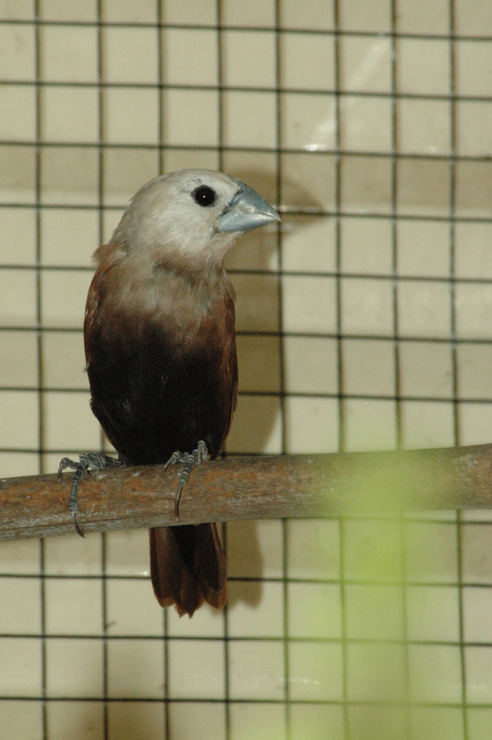 A photo of a bird from my Aviary